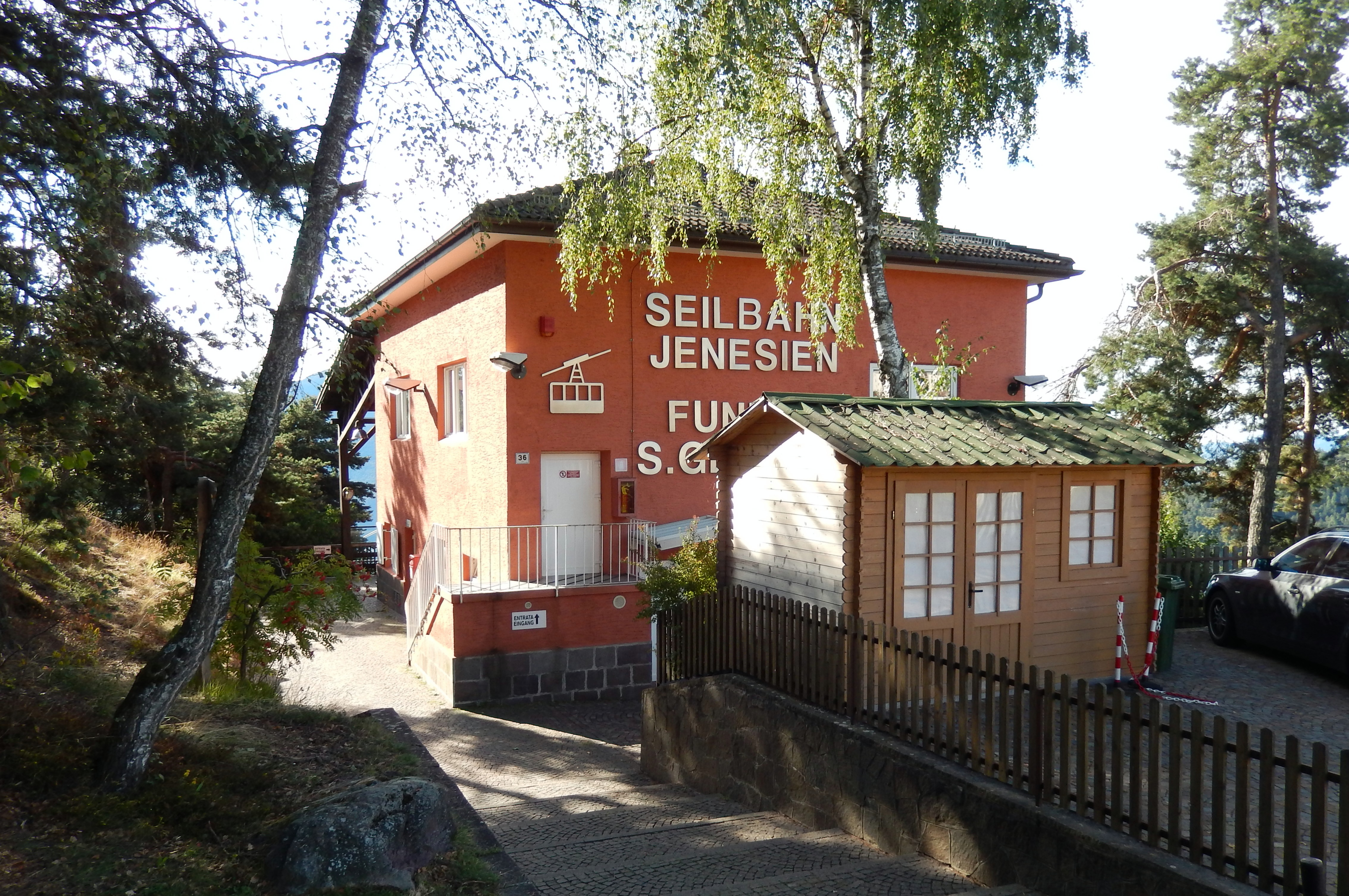 Building in Jenesien, Italy.